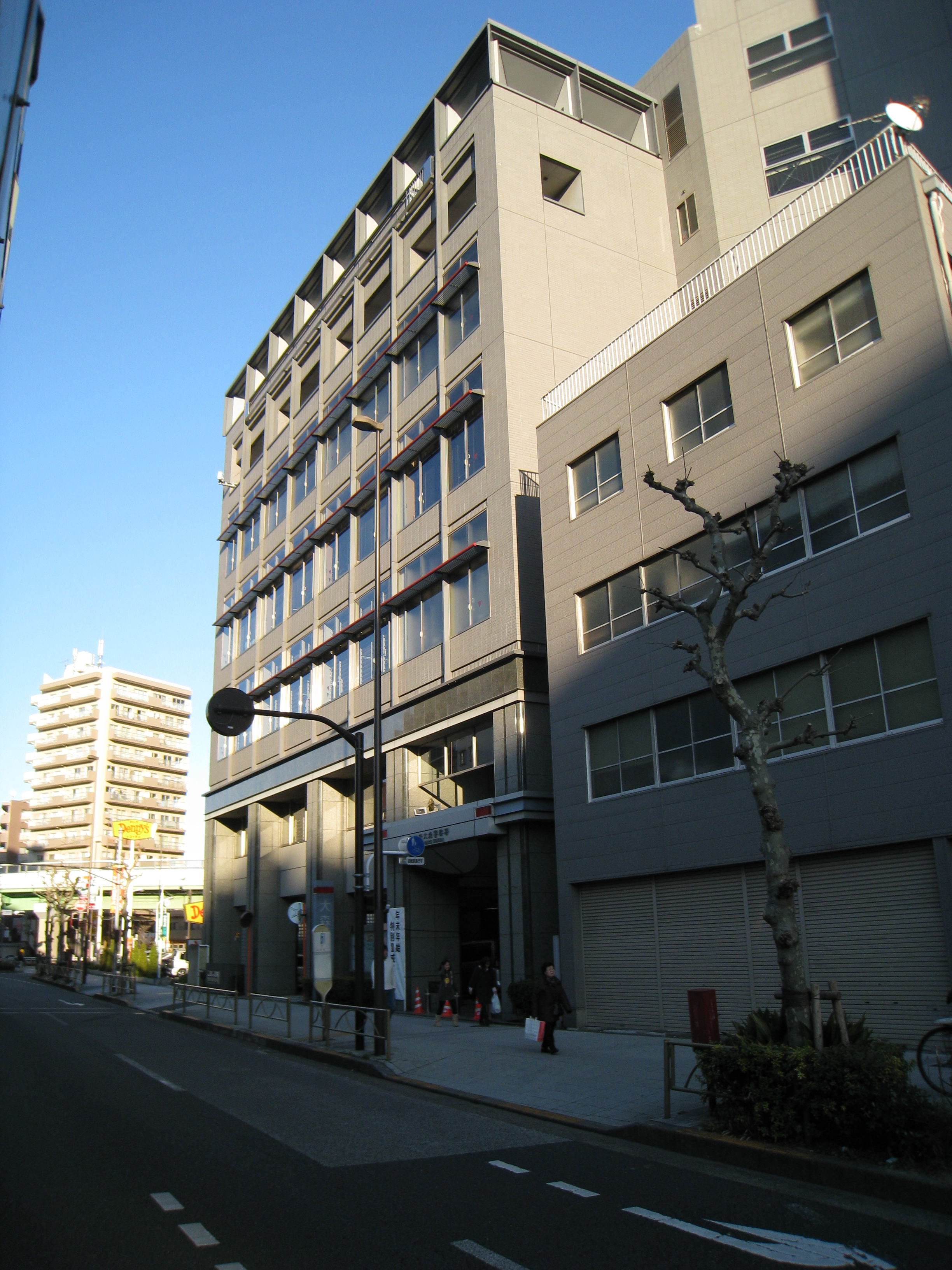 Omori Police Station